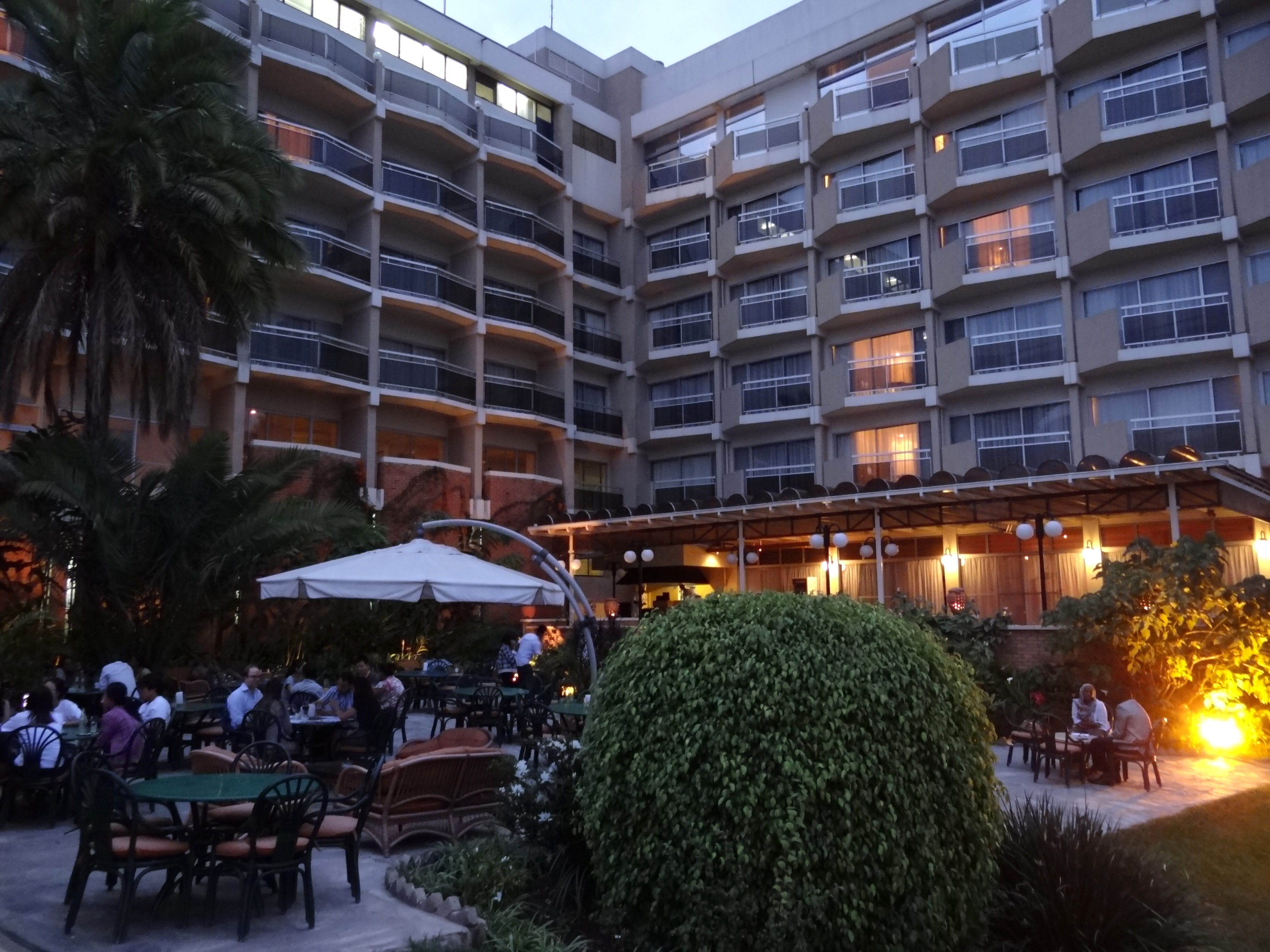 Garden Bar of Hotel des Mille Collines - a.k.a. Hotel Rwanda - Kigali - Rwanda